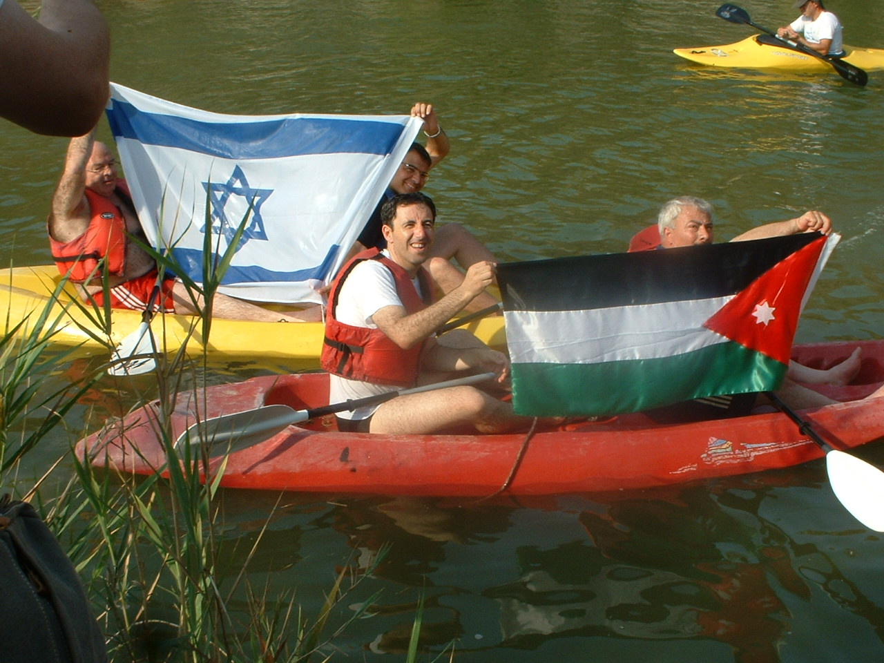 FoEME directors on the Jordan River